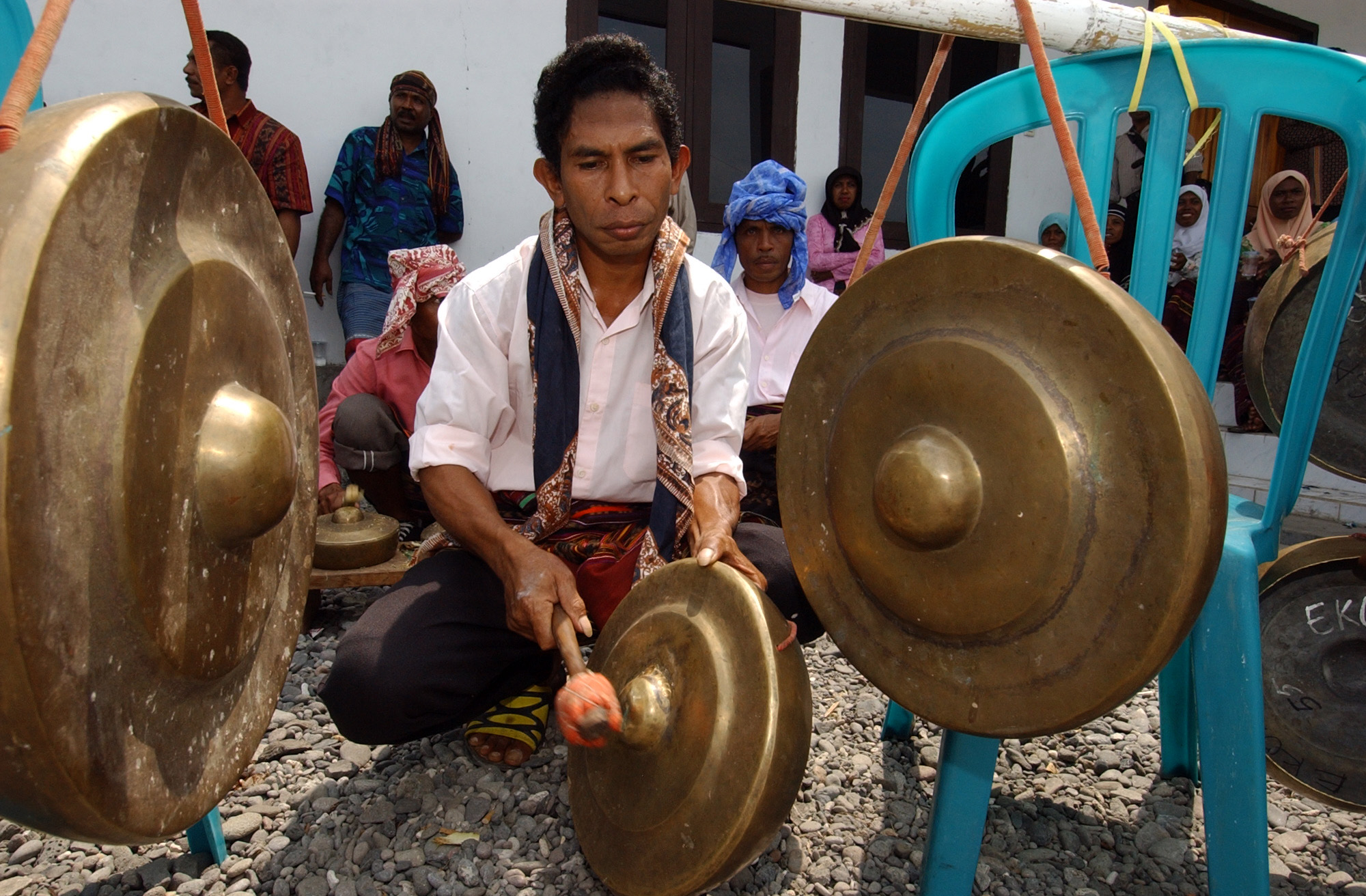 Alor, Indonesia (Mar. 25 2005) - An Indonesian man from one of the villages of Alor, Indonesia, plays an instrument during their ceremonial song and dance to express their excitement and appreciation to members of Mobile Security Team Detachment Seven in Kalabahi Alor by performing traditional songs and dance. The Military Sealift Command (MSC) hospital ship USNS Mercy (T-AH 19) is currently off the coast of Alor, Indonesia to provide humanitarian assistance and focus medical care to thousands of people displaced by a magnitude 7.3 earthquake that struck Nov. 11, 2004. While ashore, Mercy's crew will focus on public health, primary care, dental treatment, preventive medicine, health education and pharmaceutical support. Mercy's deployment is part of the U.S. commitment to Southeast Asia and the Pacific Island nations. U.S. Navy photo By Photographer's Mate 2nd Class Jeffery Russell (RELEASED)